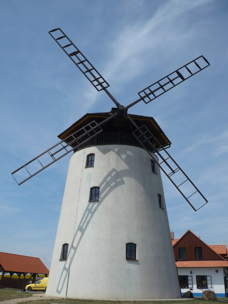 Observation Tower Bukovany mill - Windmill front view